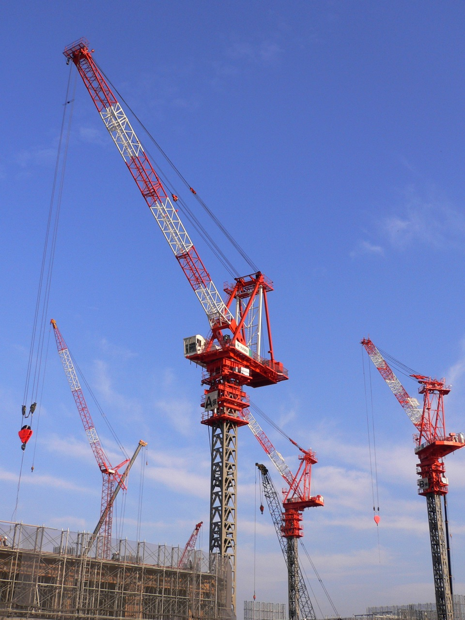 Tower Cranes in Futakotamagawa station east area redevelopment building place.